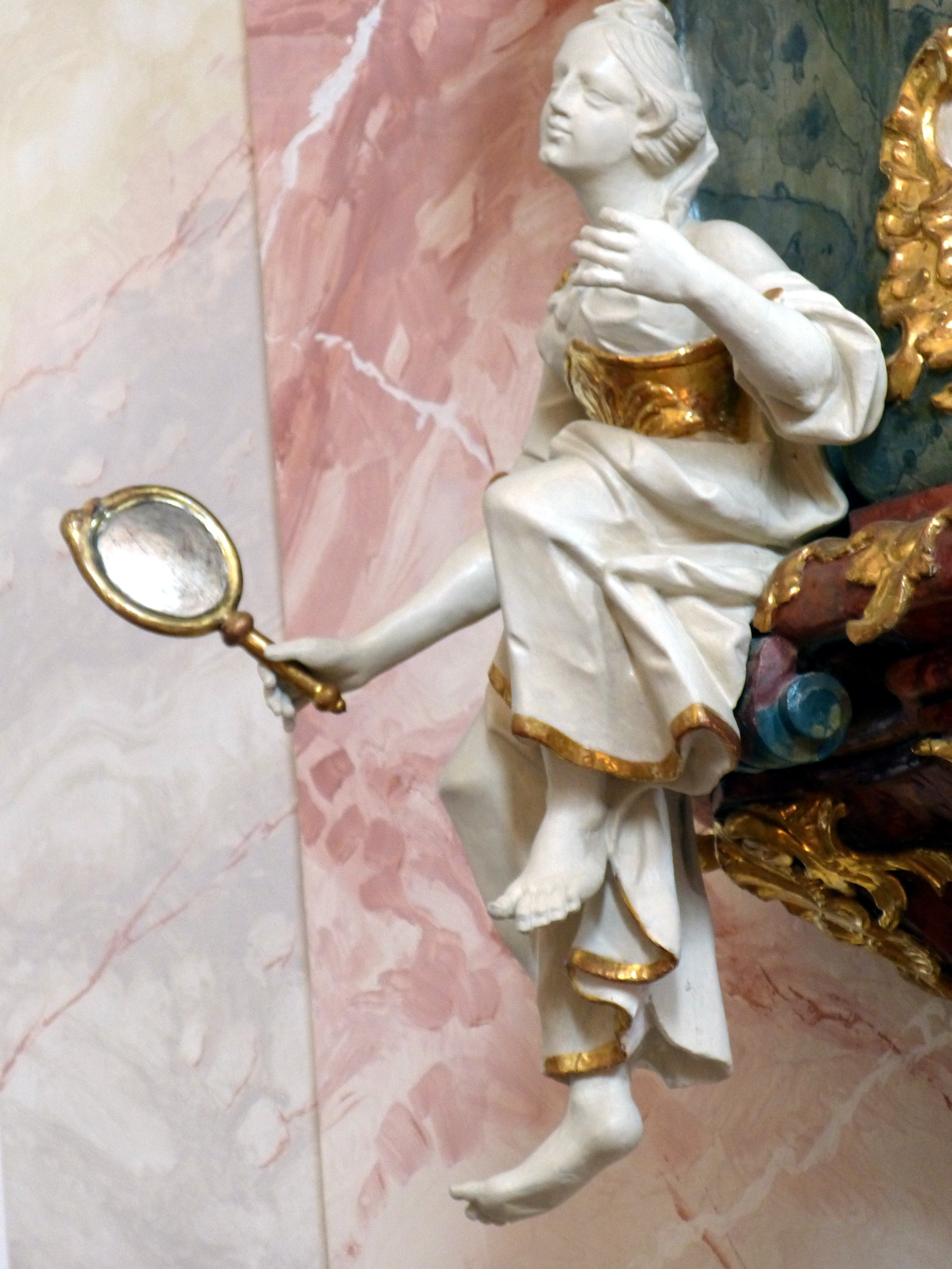 Obernzell ( Lower Bavaria ). Mary Assumption parish church - Rococo pulpit ( 1747 ): Allegory of prudence holding a mirror.